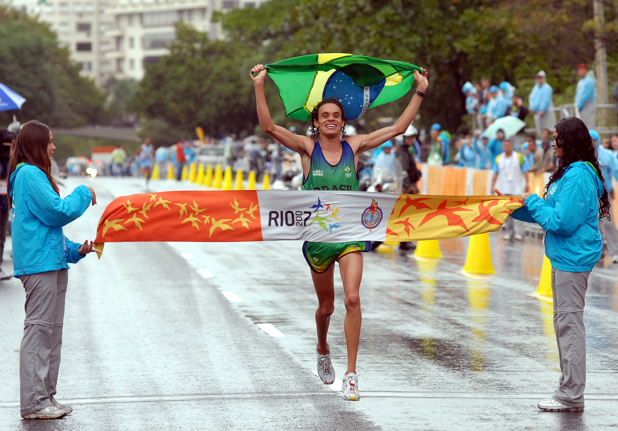 Brazilian marathoner Franck Caldeira wins the event in the last day of competition of the 2007 Pan American Games in Rio de Janeiro.